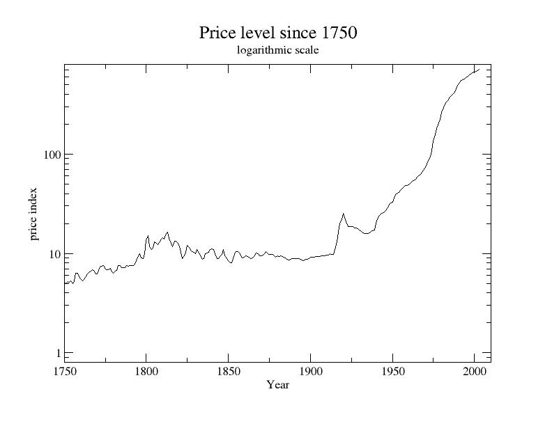 Price level of the United Kingdom from 1750 to 2003. Logarithmic scale used. For more information see [1].